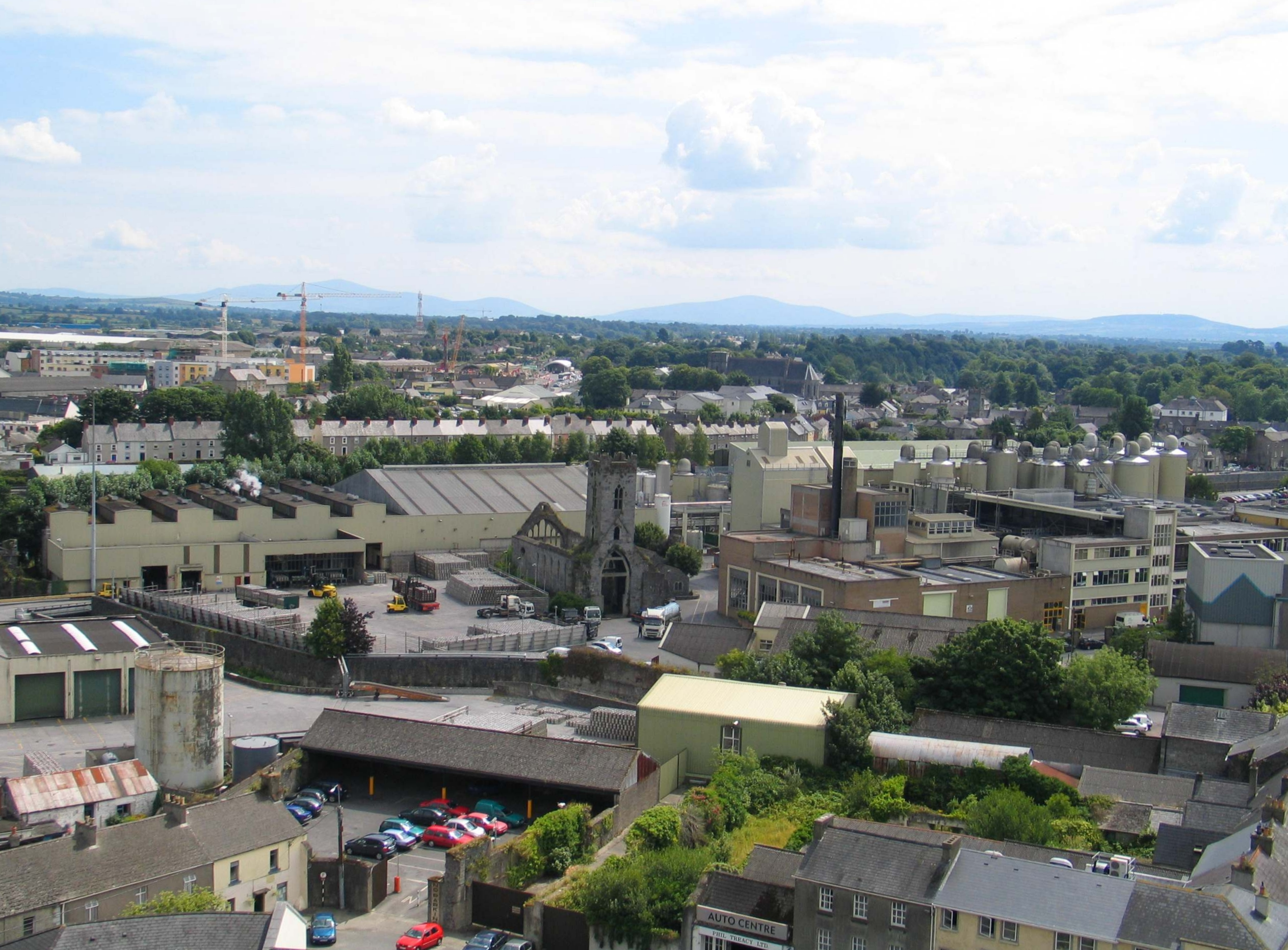 St Francis Abbey brewery, Kilkenny. St John's Church is visible in the background.